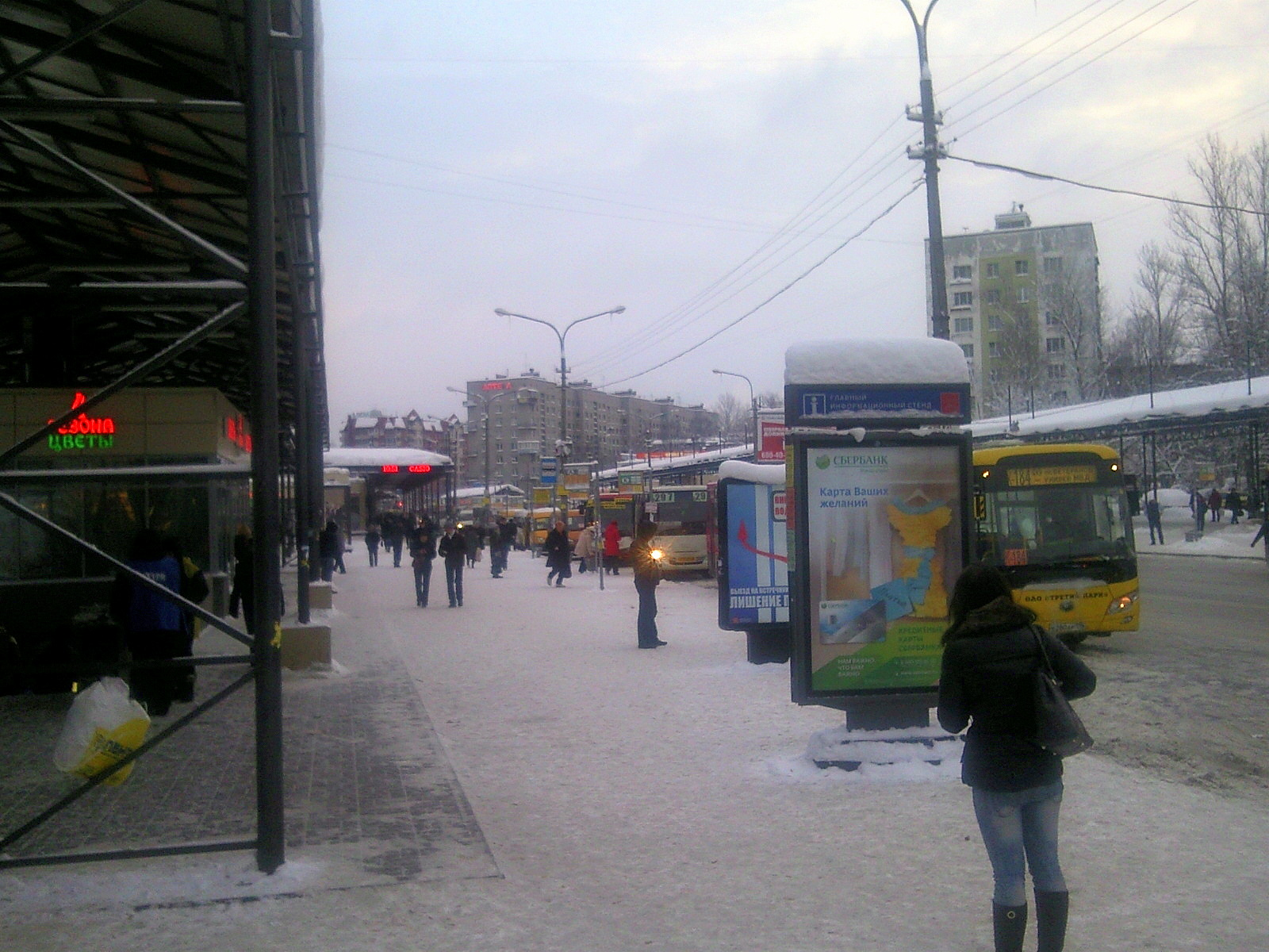 Novatorov Boulevard (Saint Petersburg)